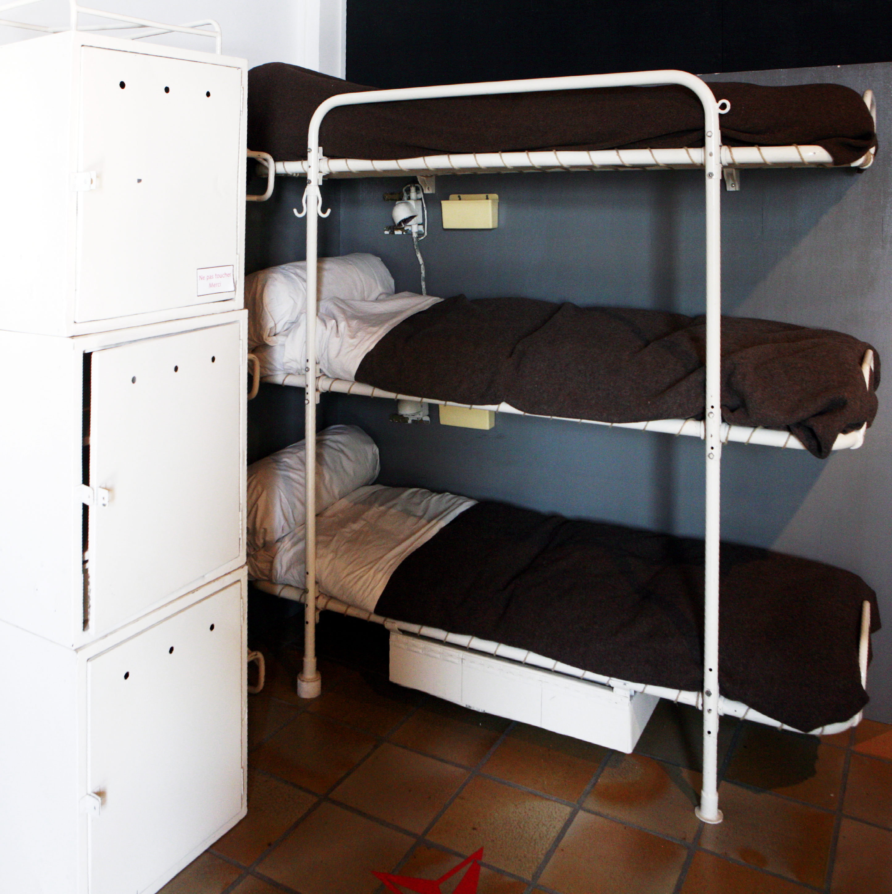 Crew beds of Clemenceau On display at Toulon naval museum.